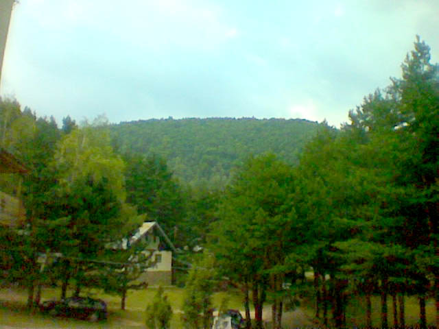 Galaciuc camp during the July 2004 Infoeducatie Contest. The picture shows Gargarita caban, and the surrounding landscape. The picture is taken by me (Xanthar) and released under the GNU Free Documentation Licence.